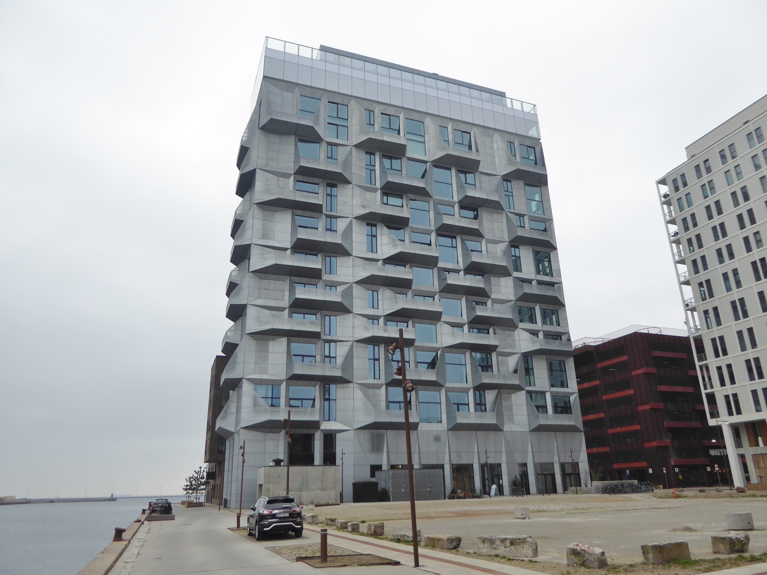 The apartment high-rise The Silo at Fortkaj in Nordhavn in Copenhagen.